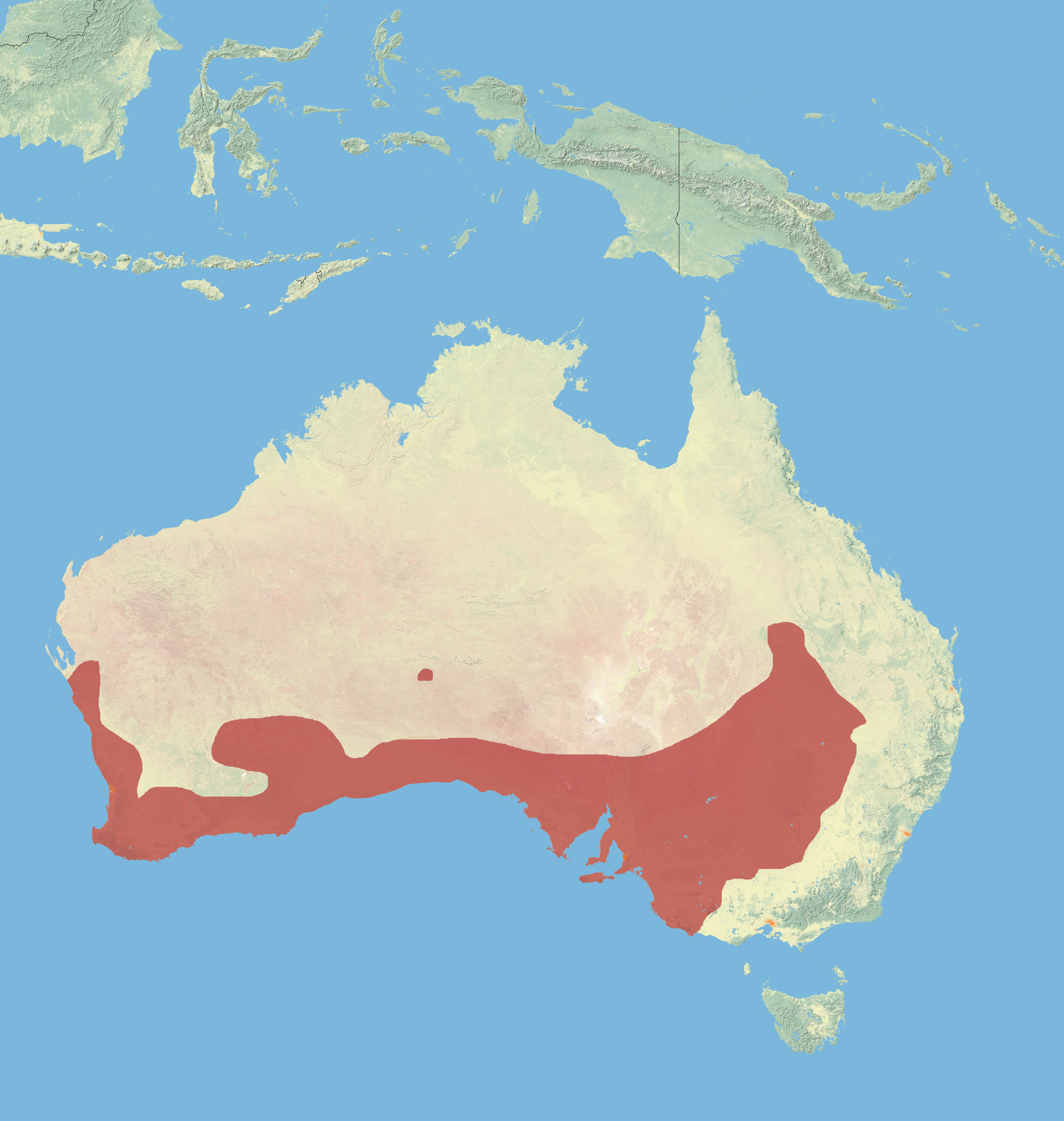 The Distribution of the Western Grey Kangaroo According to the IUCN